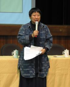 Chang Hsiao-feng, Taiwanese literary, National Yang-Ming University Education Center for Humanities and Social Sciences professor, Republic of China 8rd legislative.